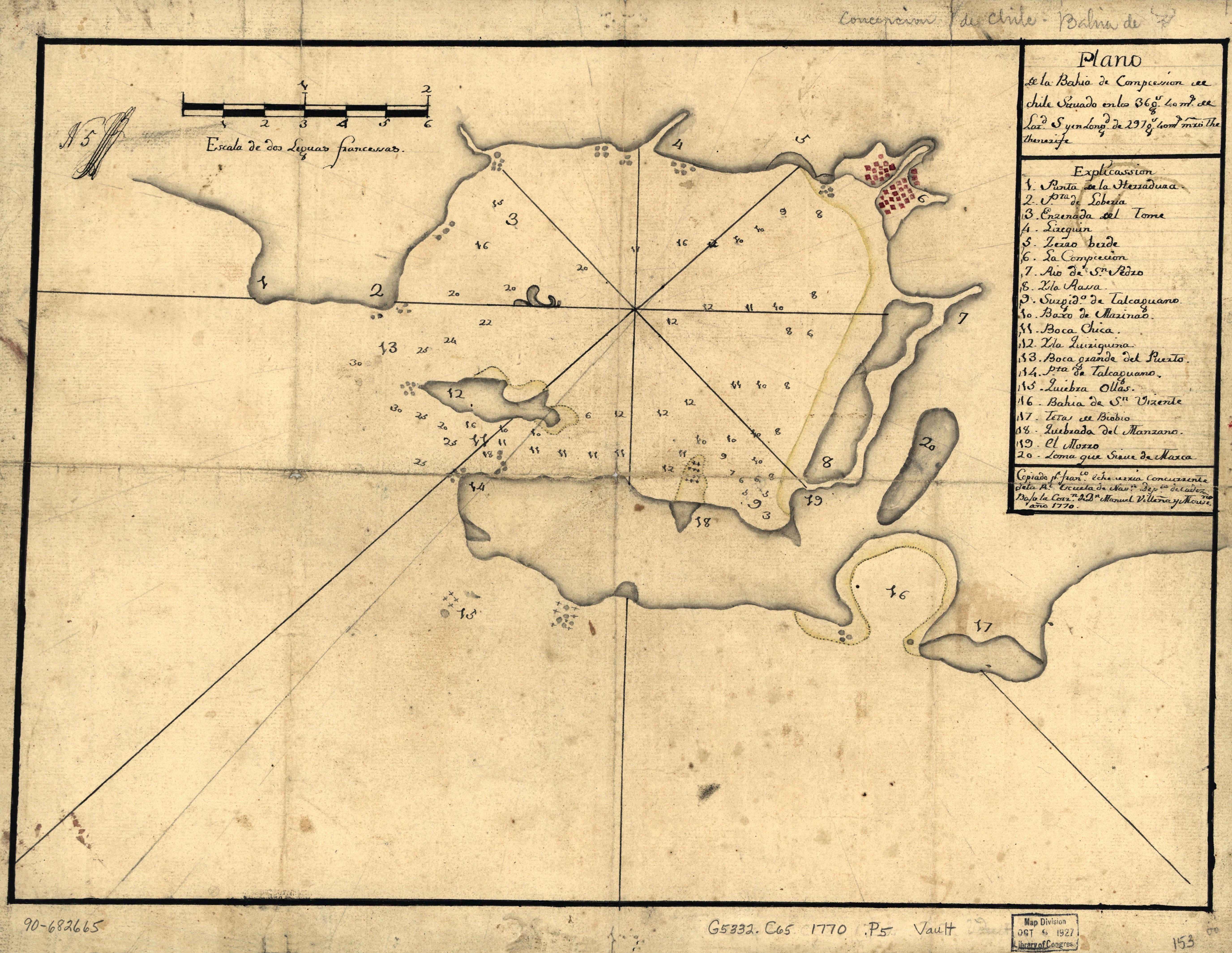 Depths shown by soundings. Prime meridian: Tenerife. Oriented with north to the left. Watermark: Fleur-de-lis over the characters VDL. Pen-and-ink and watercolor. Mounted on cloth backing. LC Luso-Hispanic World, 212 Available also through the Library of Congress Web site as a raster image. Indexed. Annotated in black ink in upper left corner: N. 5 [indecipherable]. Maggs number annotated in pencil in lower right margin: 153. Vault